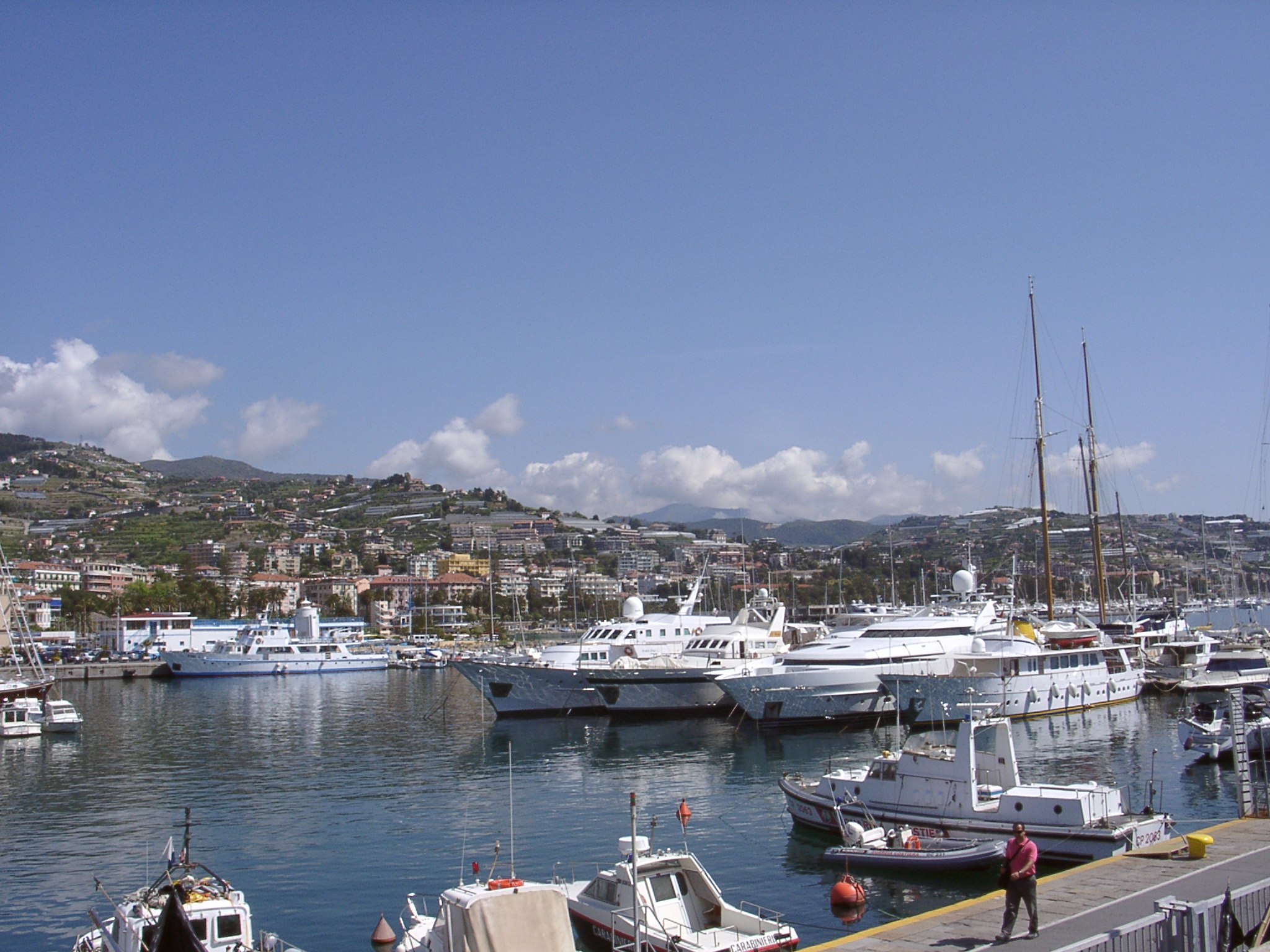 Harbour of San Remo in May 2008. On the hills in the background you may see the glass houses of the flower production